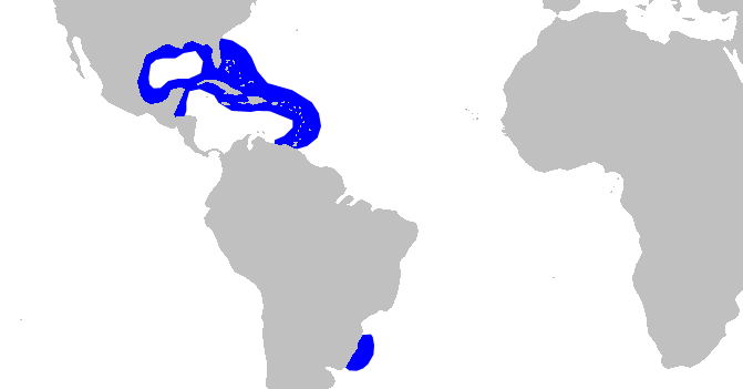 Distribution map for Carcharhinus perezi